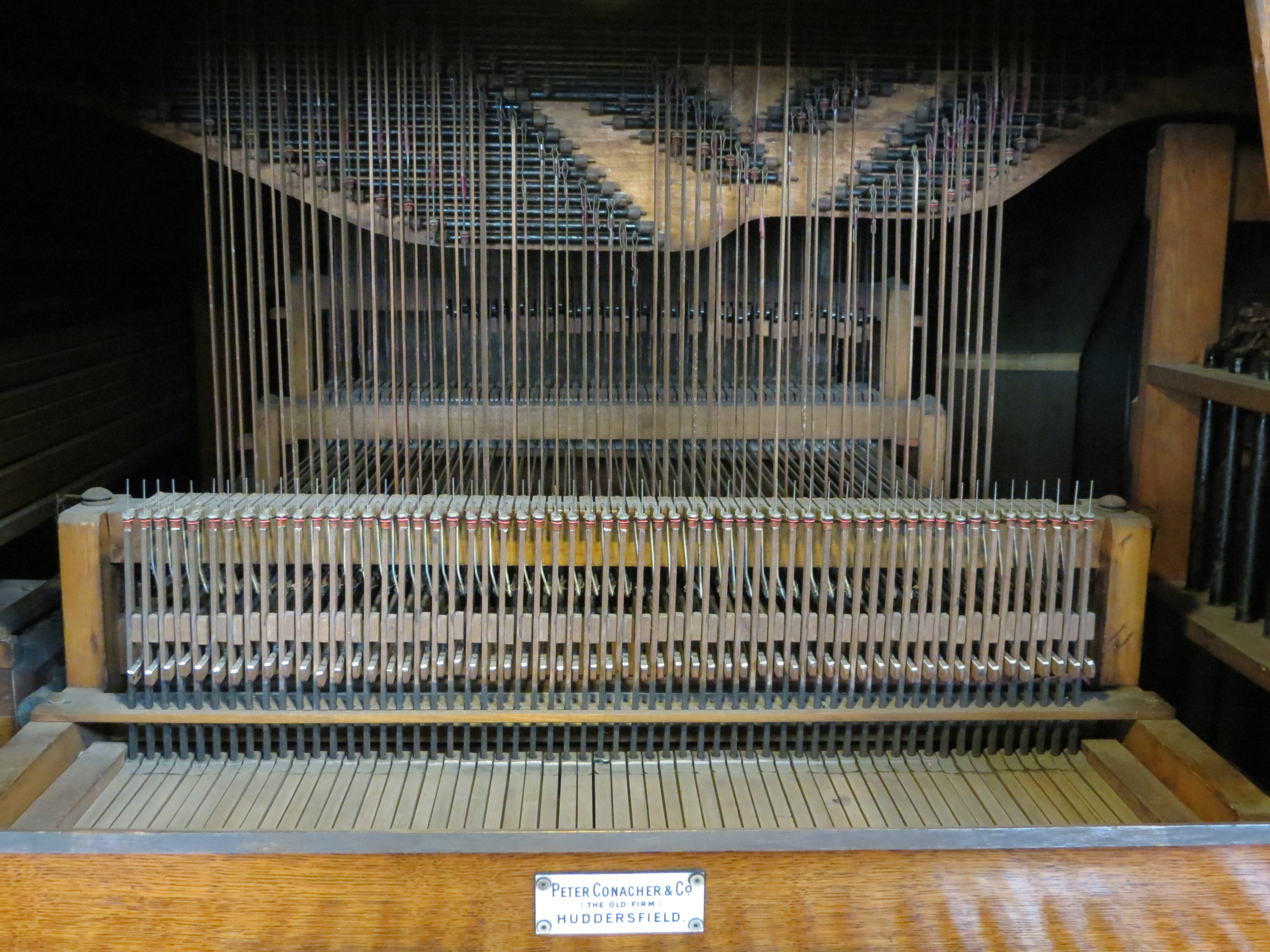 View of the tracker action immediately inside the organ as viewed from the console.